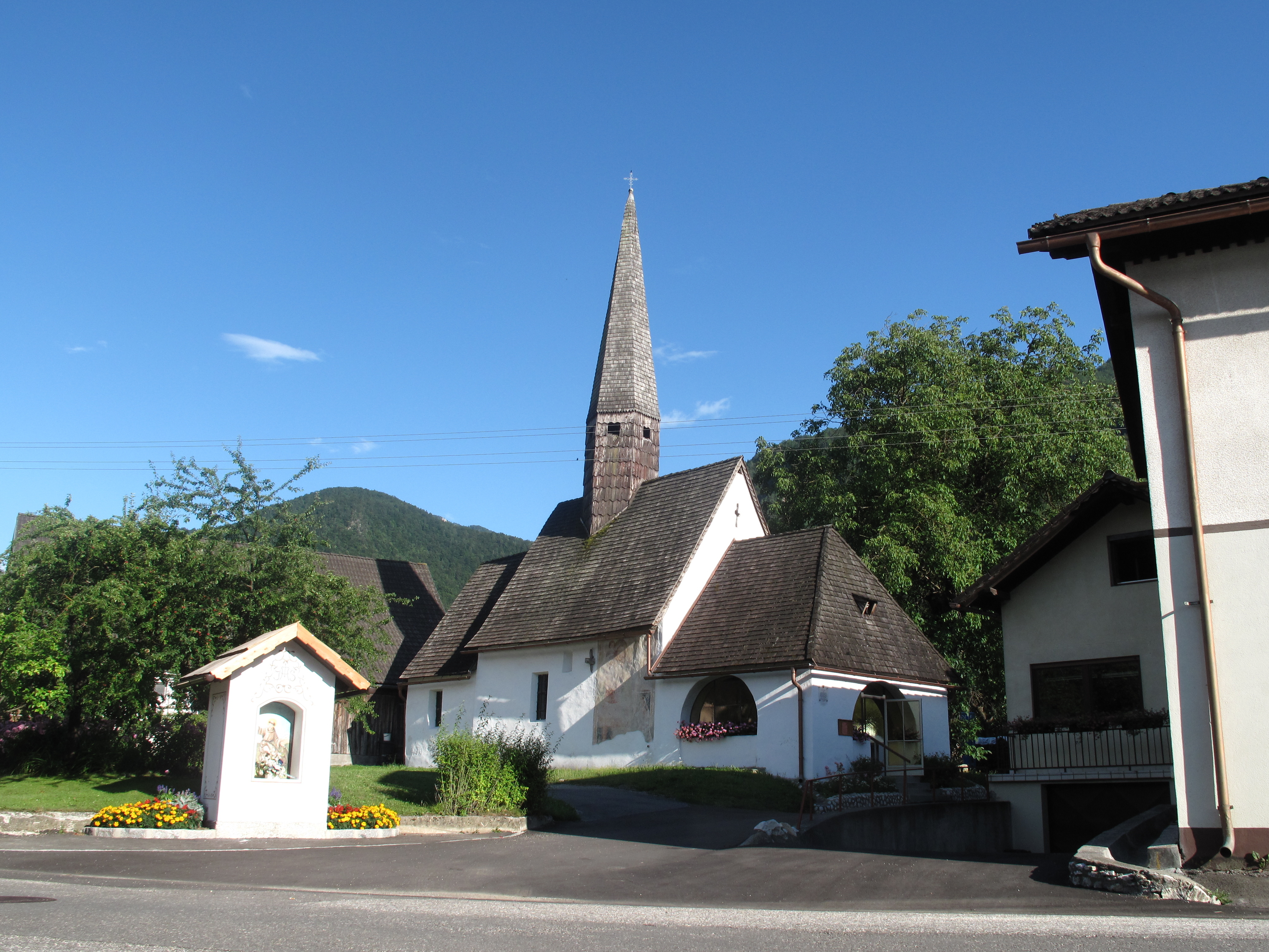 Seidolach, church